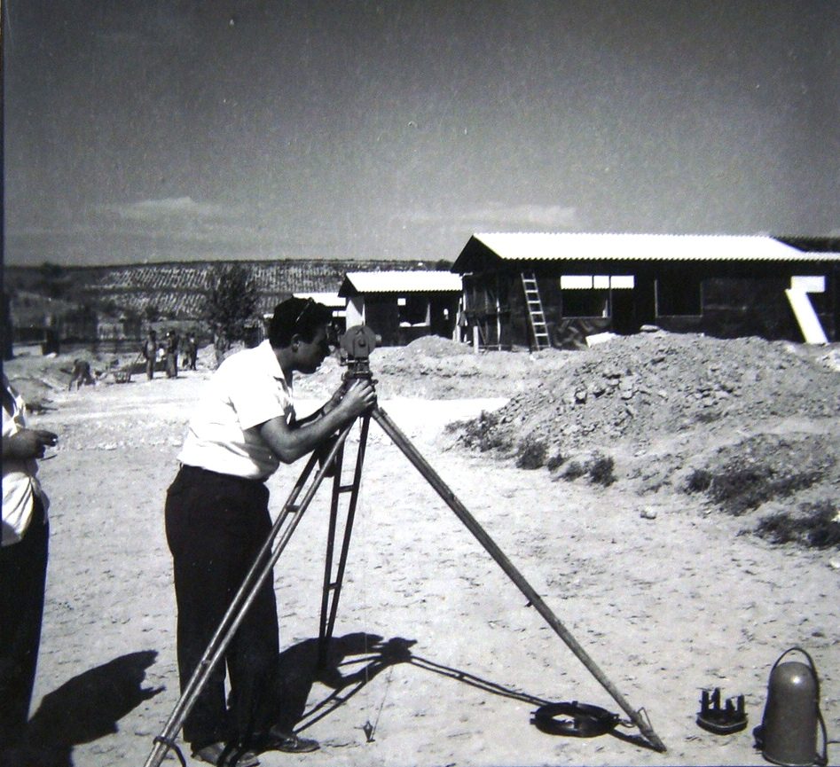 1963 Skopje earthquake: Build suburb Dexion, in Gorce Petrov II This media file is produced by Wikipedian in Residence in Category:Wikipedian in Residence at DARM in 2016.